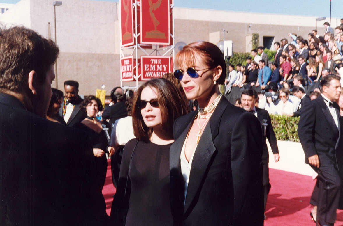 Lauren Holly (right) on the red carpet at the Emmy Awards 1991 with Holly-Marie Combs